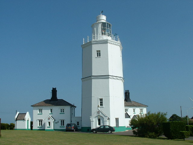 North Foreland Lighthouse. Built in 1691. Height 26 Metres